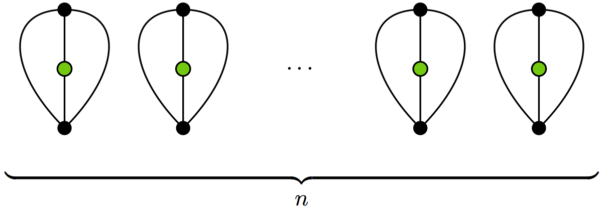 On the game of sprouts page, the "Minimum number of moves" section states the length of any game is at least 2n moves. This example shows that the minimum 2n is attainable.